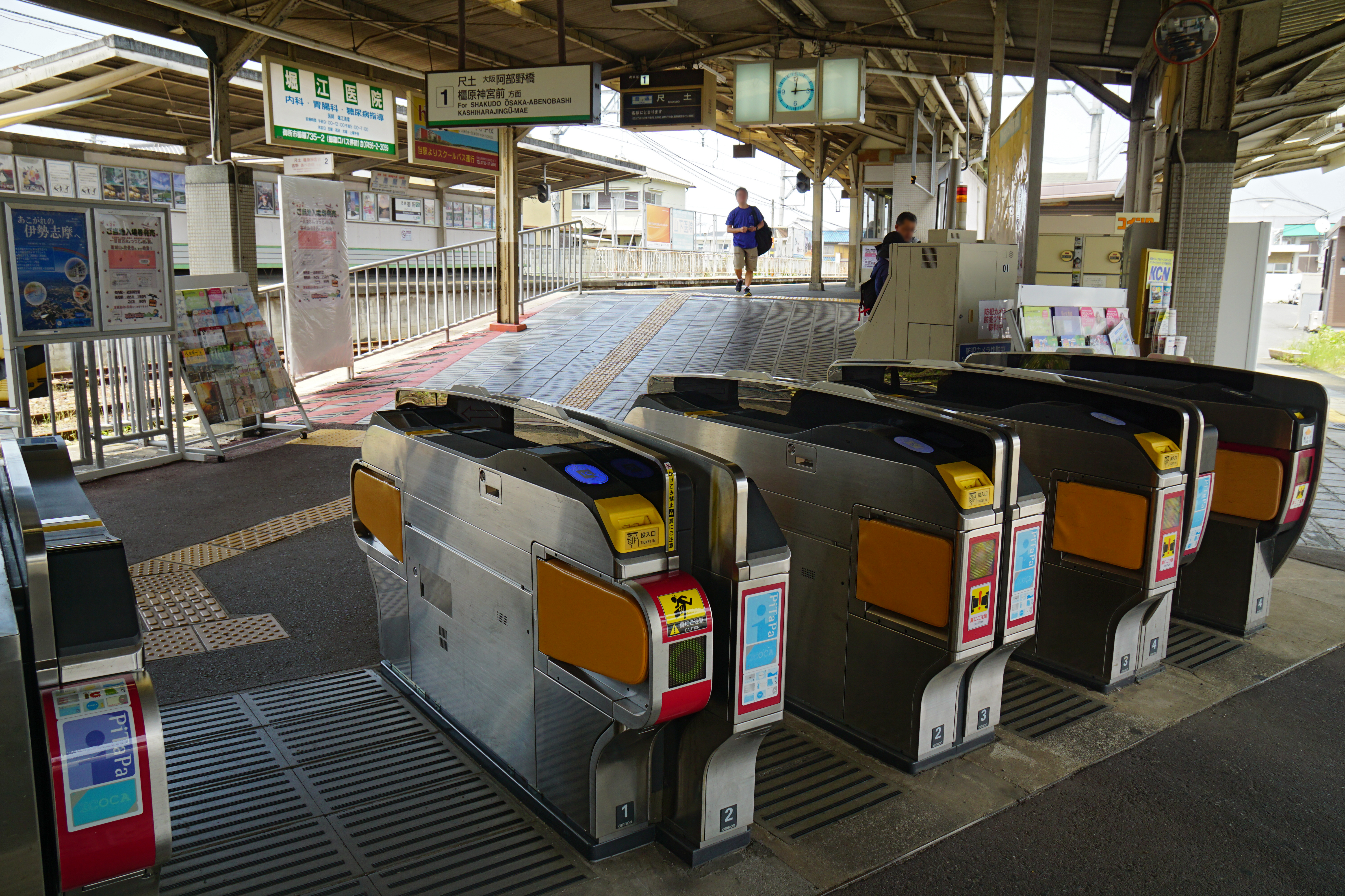 Kintetsu Gose Station in Gose, Nara prefecture, Japan